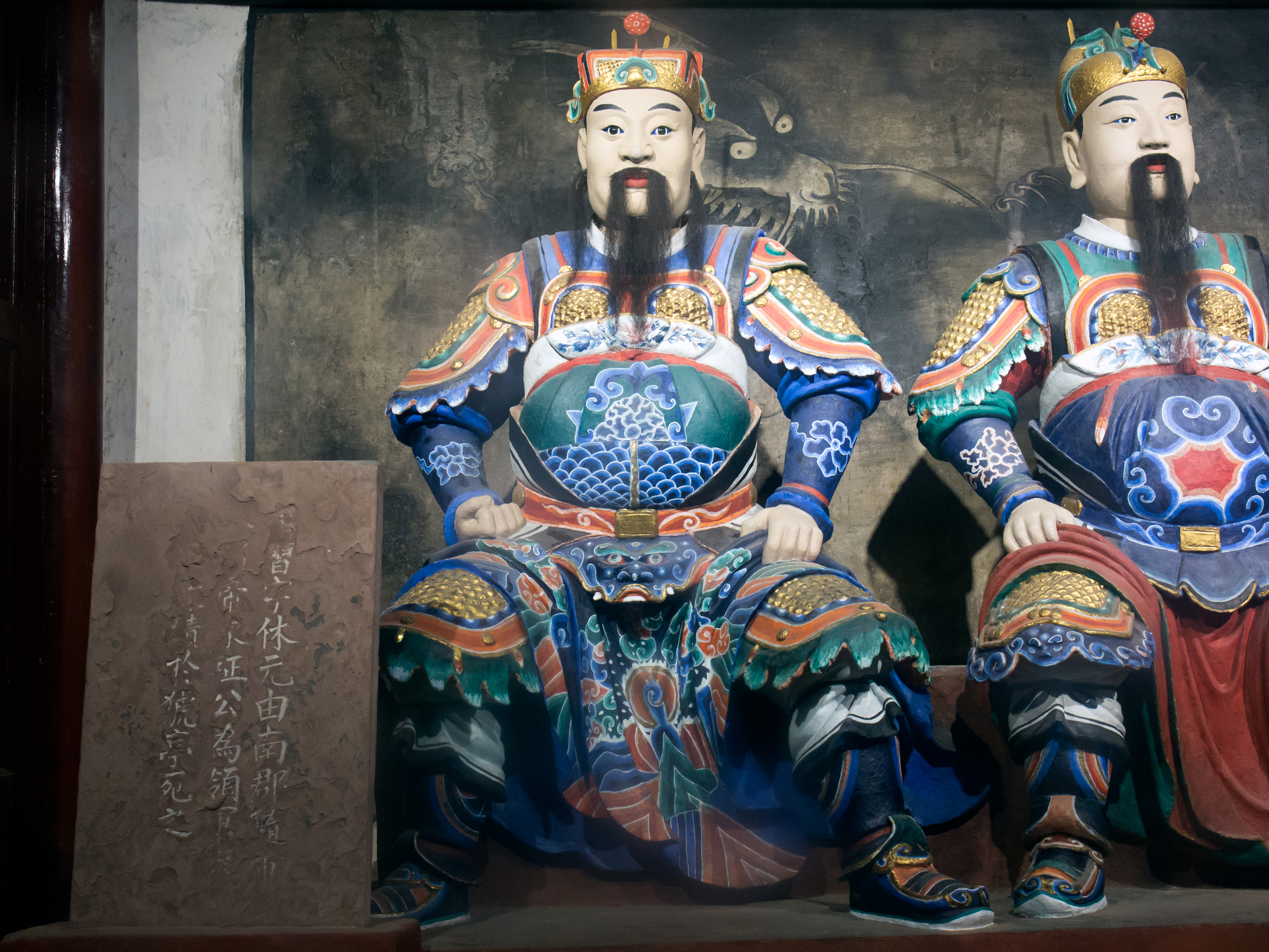 Feng Xi (馮習)